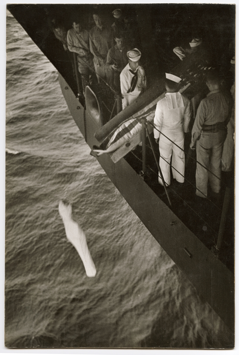 Burial at sea. W. Eugene Smith spent time on the carrier U.S.S. Bunker Hill. Time Inc.; The LIFE Picture Collection